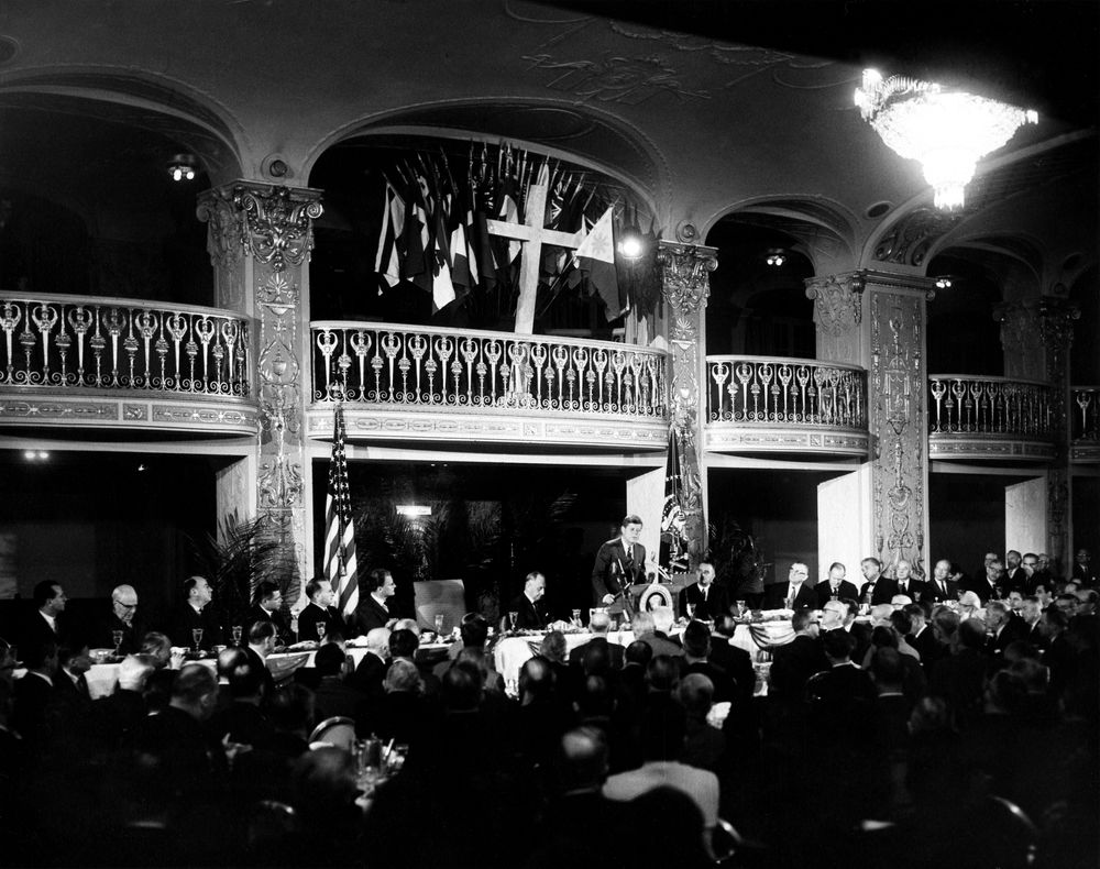 Prayer Breakfast sponsored by the International Council for Christian Leadership in the Grand Ballroom, Mayflower Hotel, Washington, D.C. President John F. Kennedy addresses the audience from the podium beneath a large cross and the flags of different nations. (L-R) At table: two unidentified men; United States Ambassador to the United Nations Adlai E. Stevenson; Secretary of Defense Robert S. McNamara; unidentified man; Reverend Billy Graham; co-chair of the prayer breakfast Senator Frank Carlson of Kansas; President Kennedy; Vice President Lyndon B. Johnson; ten unidentified men.